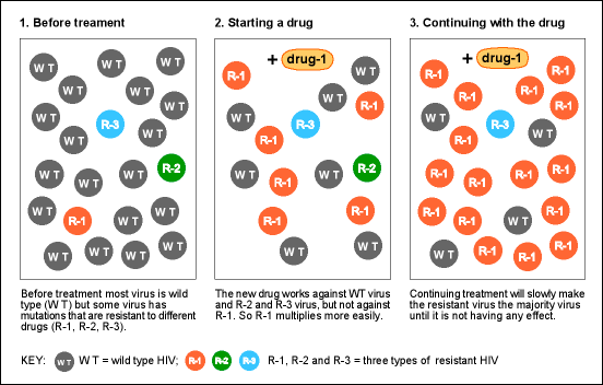 Resistance Mutation Mechanism